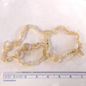 Section of an adult Dibothriocephalus latus containing many proglottids. The scolex was not present in this specimen. Image courtesy of the Florida State Public Health Laboratory.